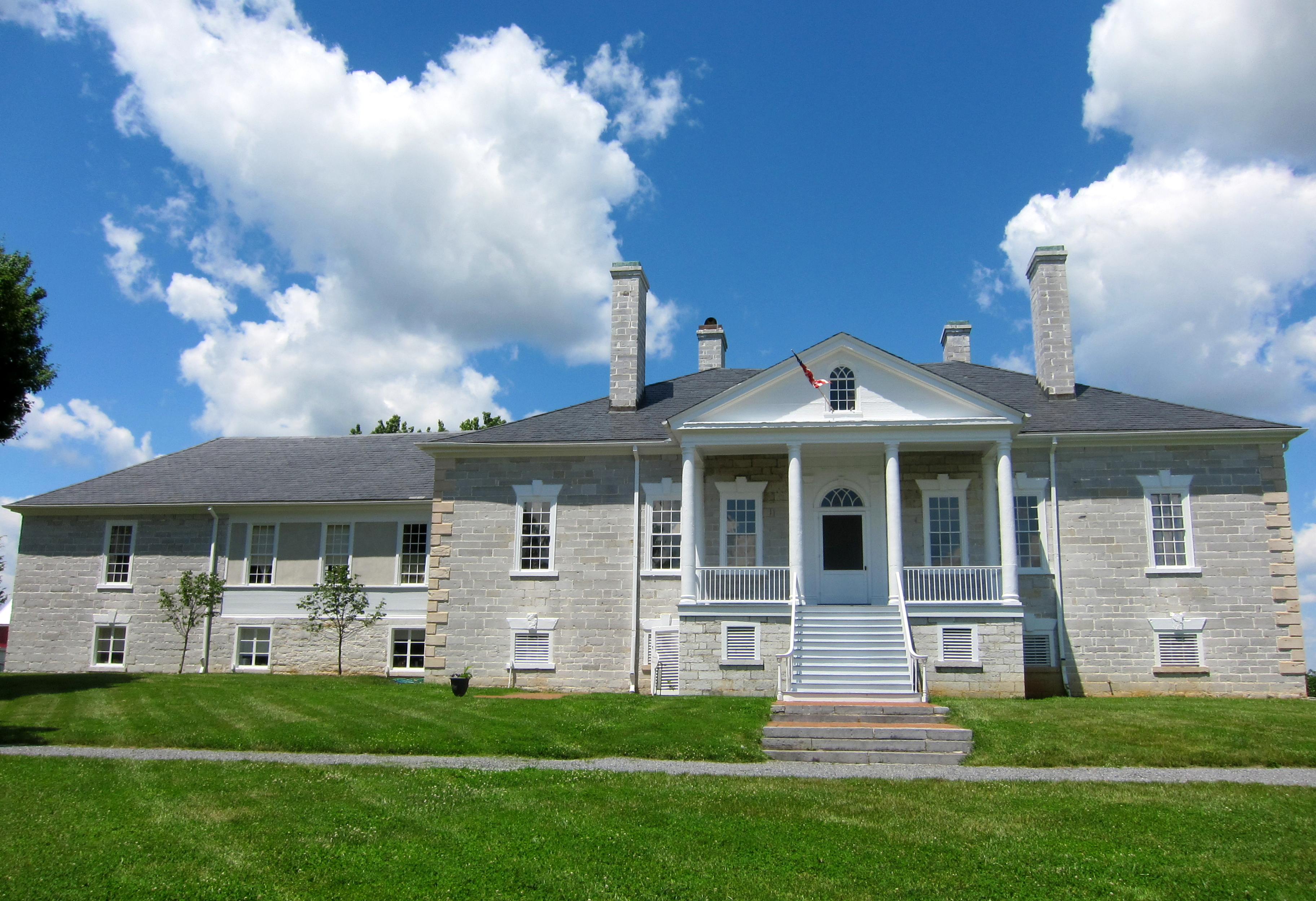 The Manor House at Belle Grove Plantation near Middletown, Virginia.